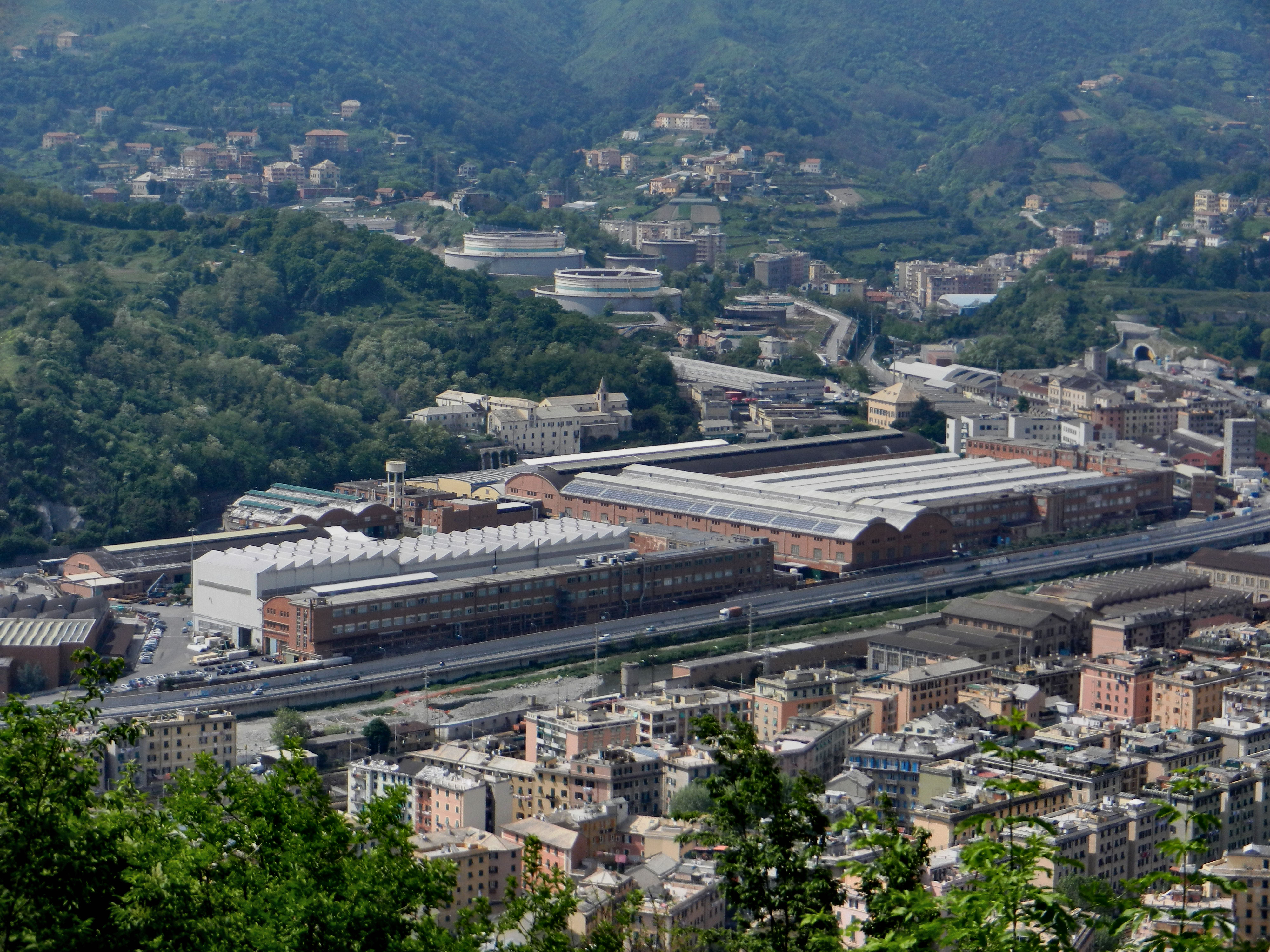 Genoa (Italy), quarter of Campi, view of Ansaldo Energia factory